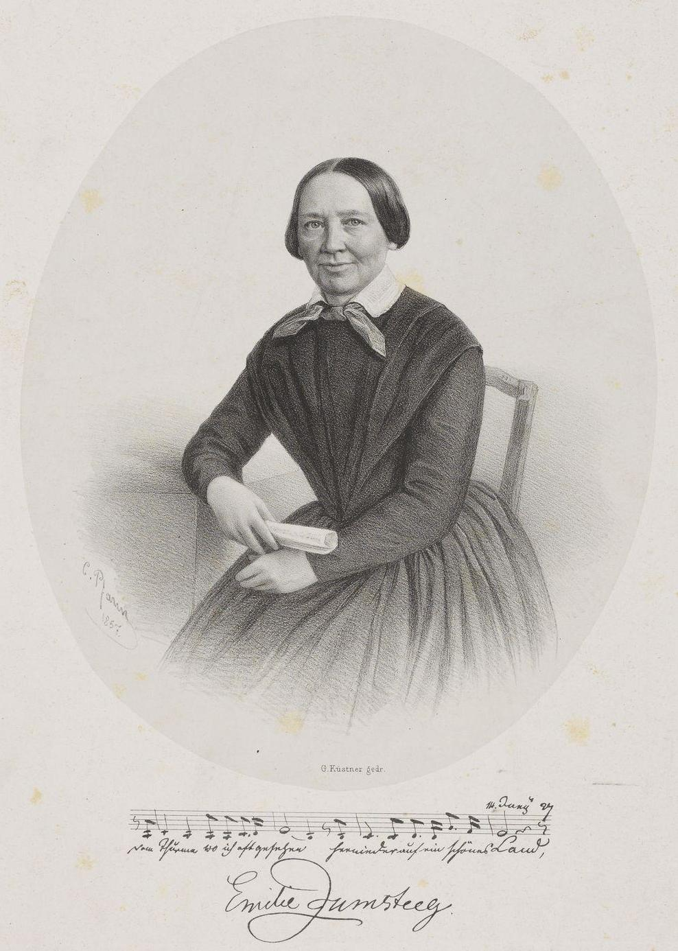 Depicted person: Emilie Zumsteeg, Lithographie